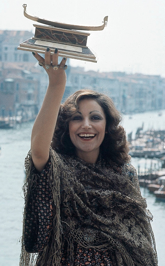 Italian singer Mia Martini (Domenica Berté) raising the Gondola d'Oro prize won at the Mostra Internazionale di Musica Leggera with the song Donna Sola. Venice, 1973